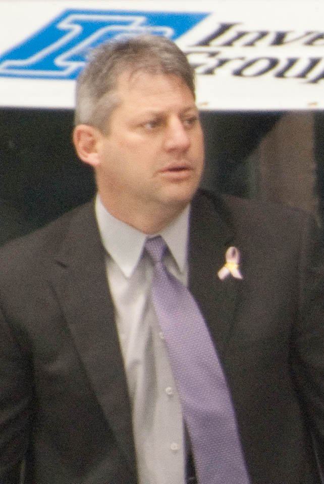 Curtis Hunt behind the bench for the Regina Pats.